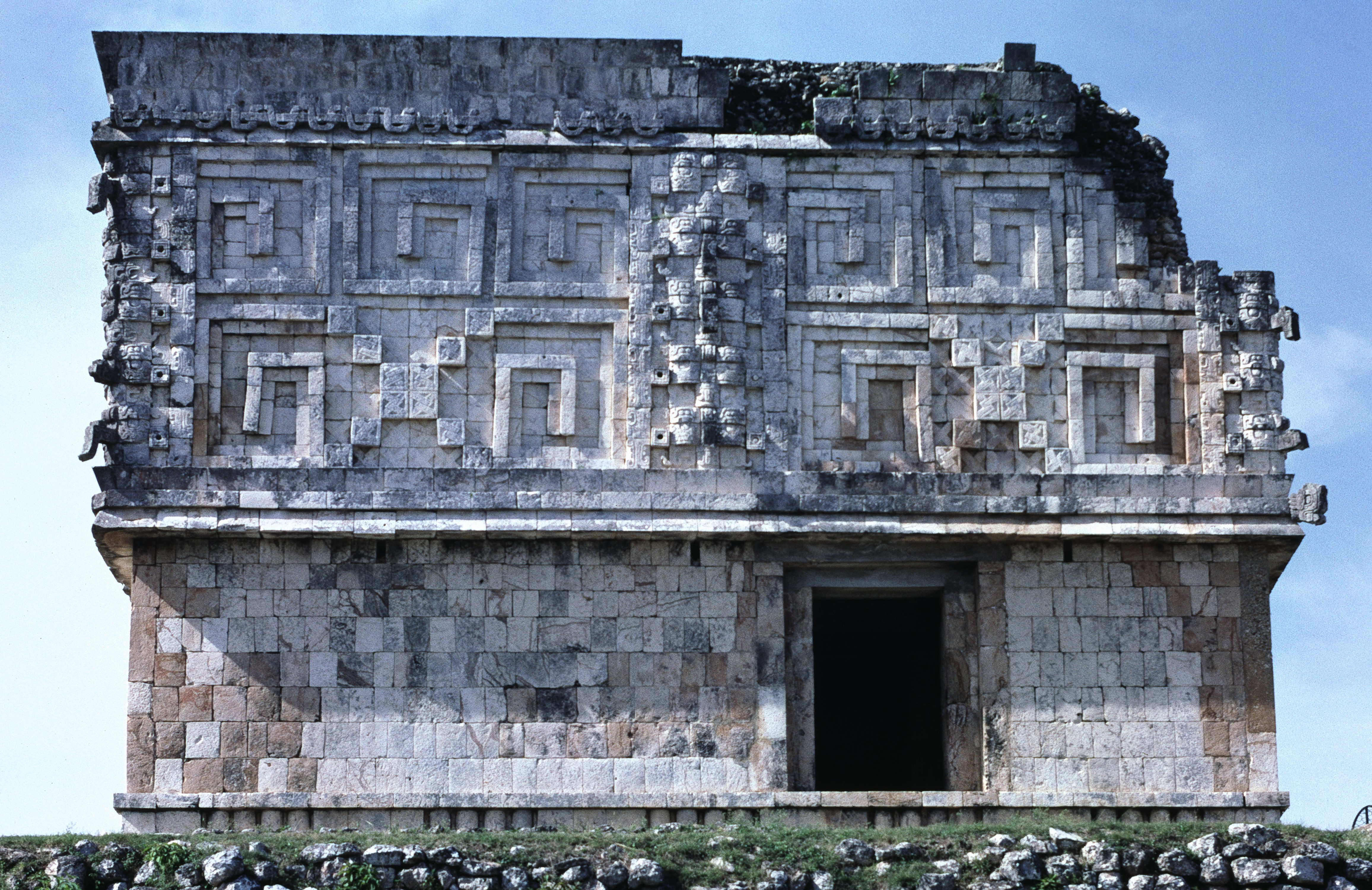 Uxmal, Yucatan, Mexico: Governeur's Palace, south side